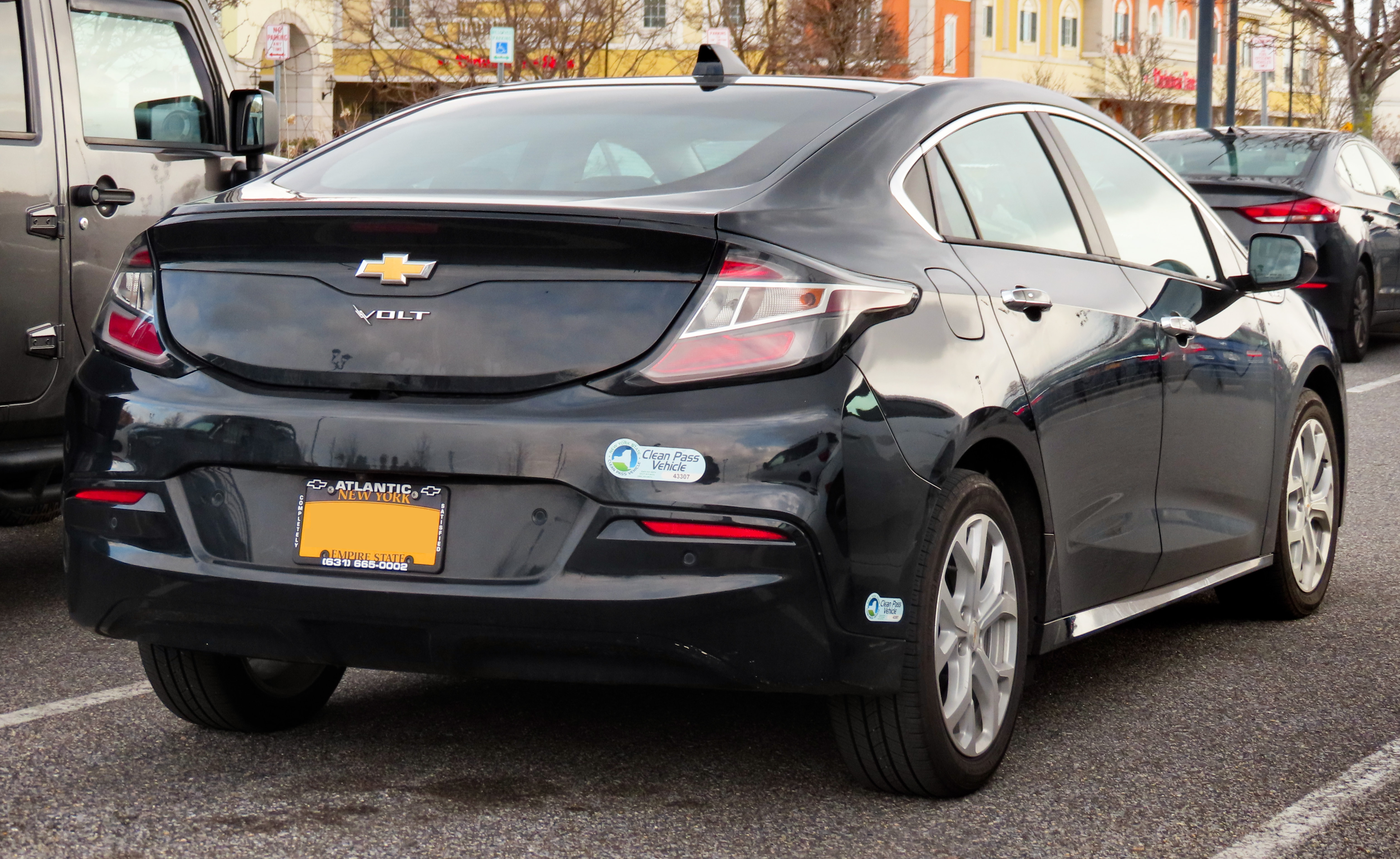 A 2018 Chevrolet Volt photographed in Deer Park, New York, USA